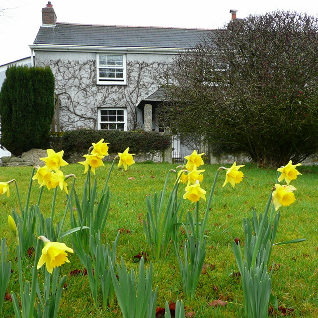 Daffodils and cottage at No Man's Land My first daffodil pic of 2009 and of course it's in Cornwall! The scene is hard by the A390 to the west of Lostwithiel.